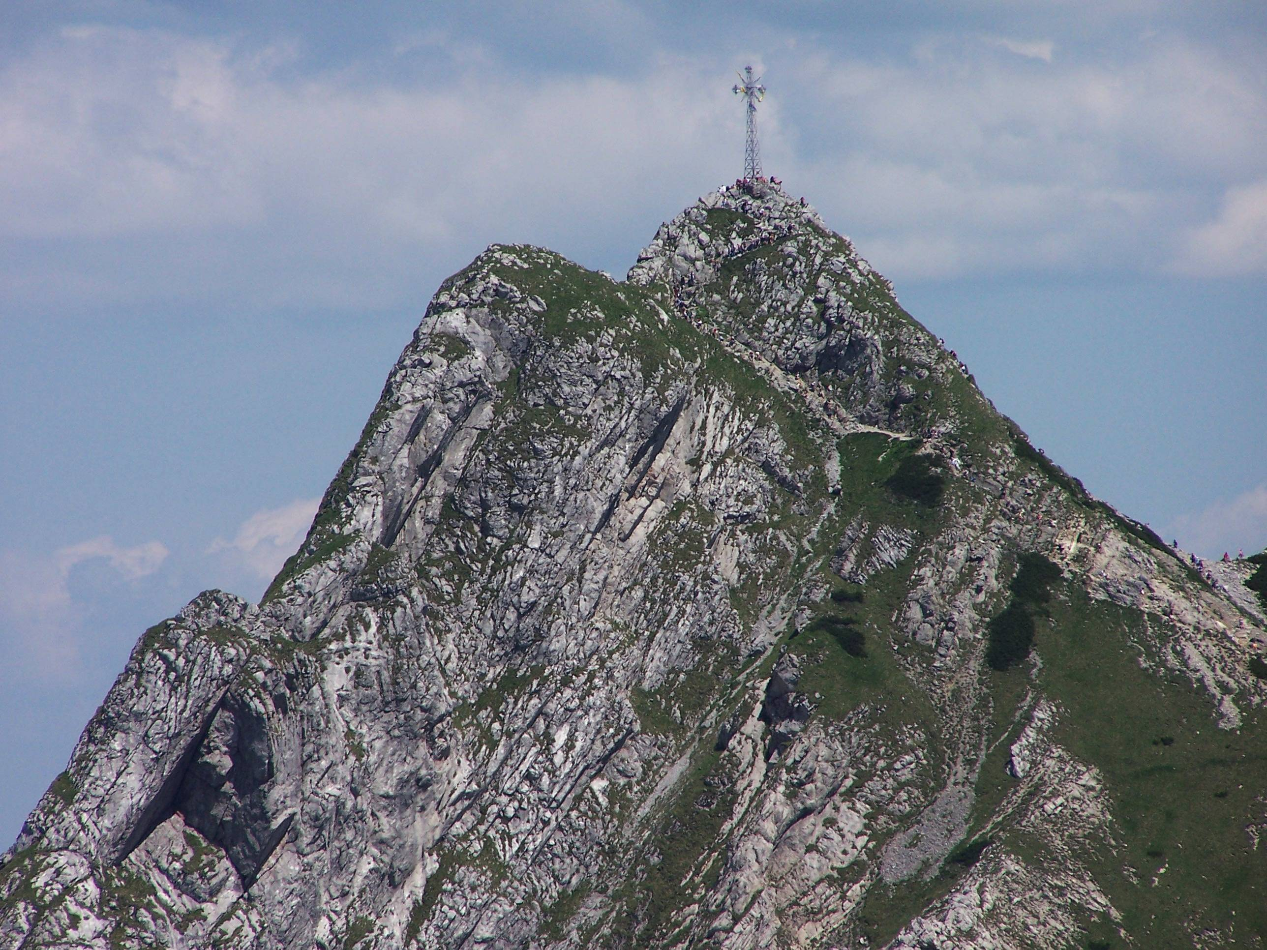 Giewont (Tatra Mountains)